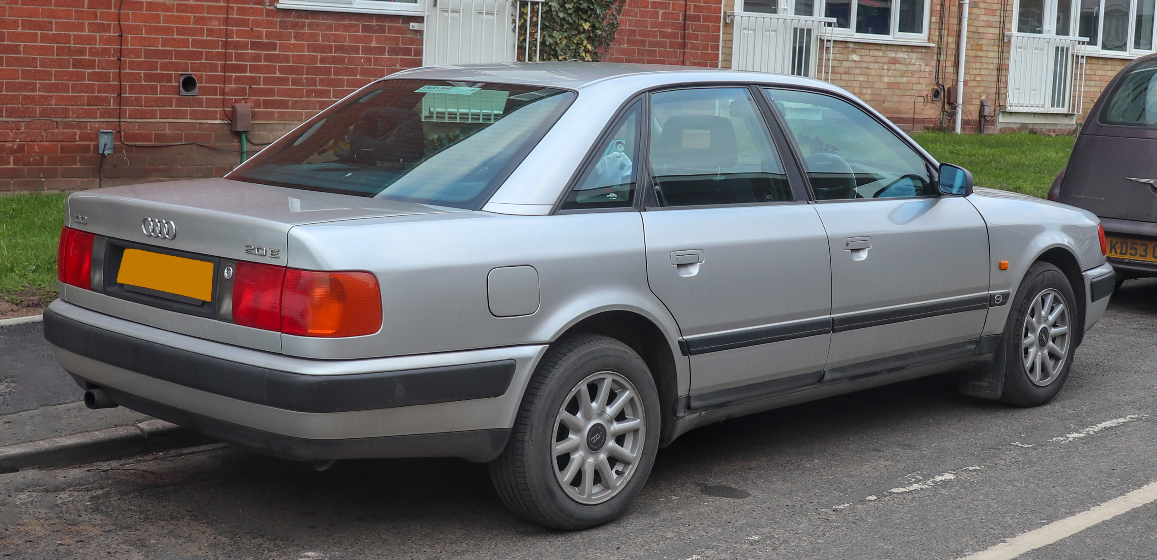 1994 Audi 100 E 2.0 Rear Taken in Warwick